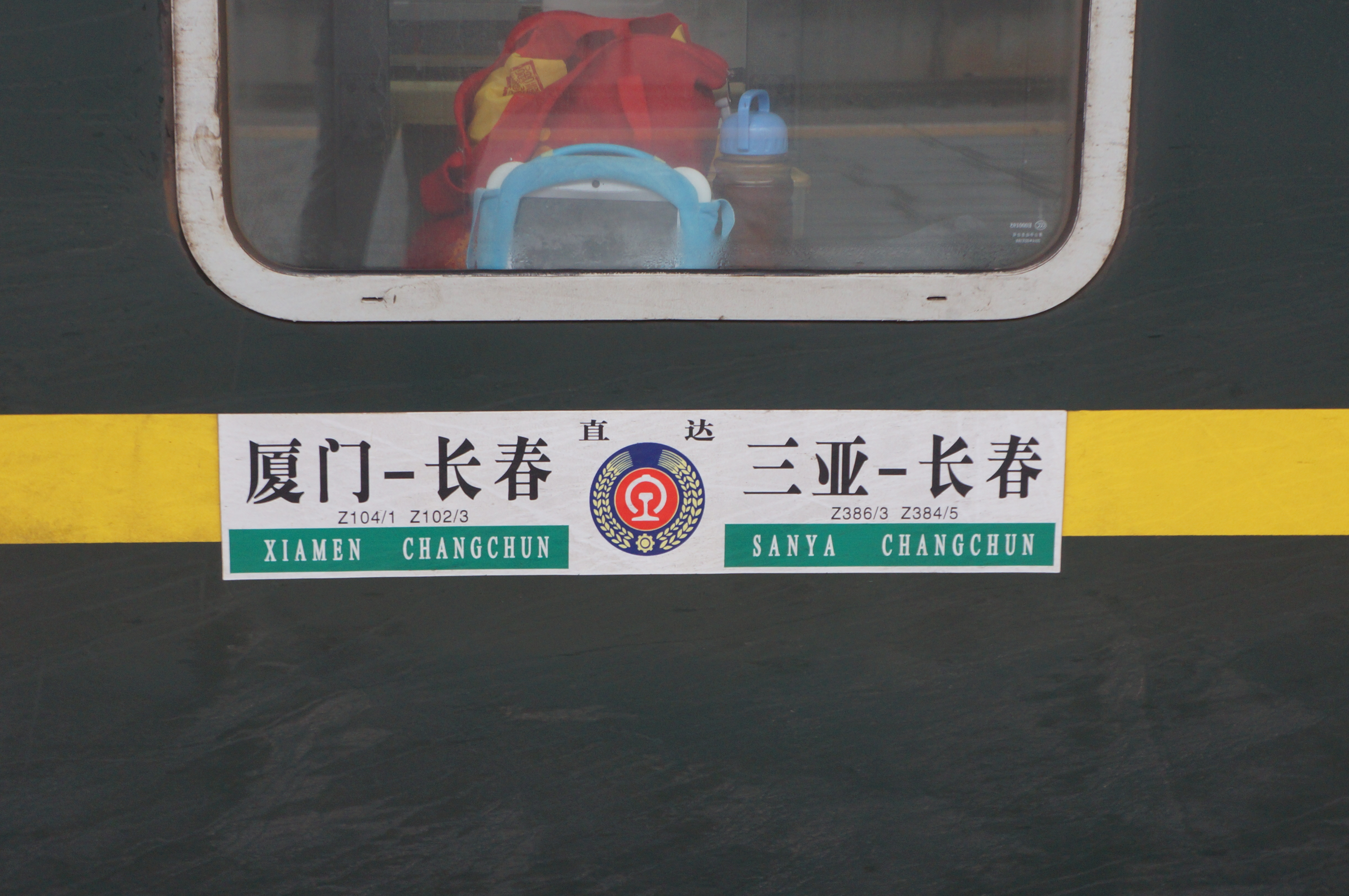 Taken at Jiujiang Station